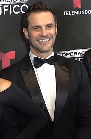 Mark Tacher in 2020